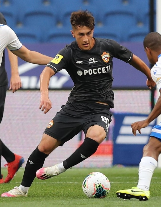 Konstantin Maradishvili with PFC CSKA Moscow in a game against FC Dynamo Moscow.